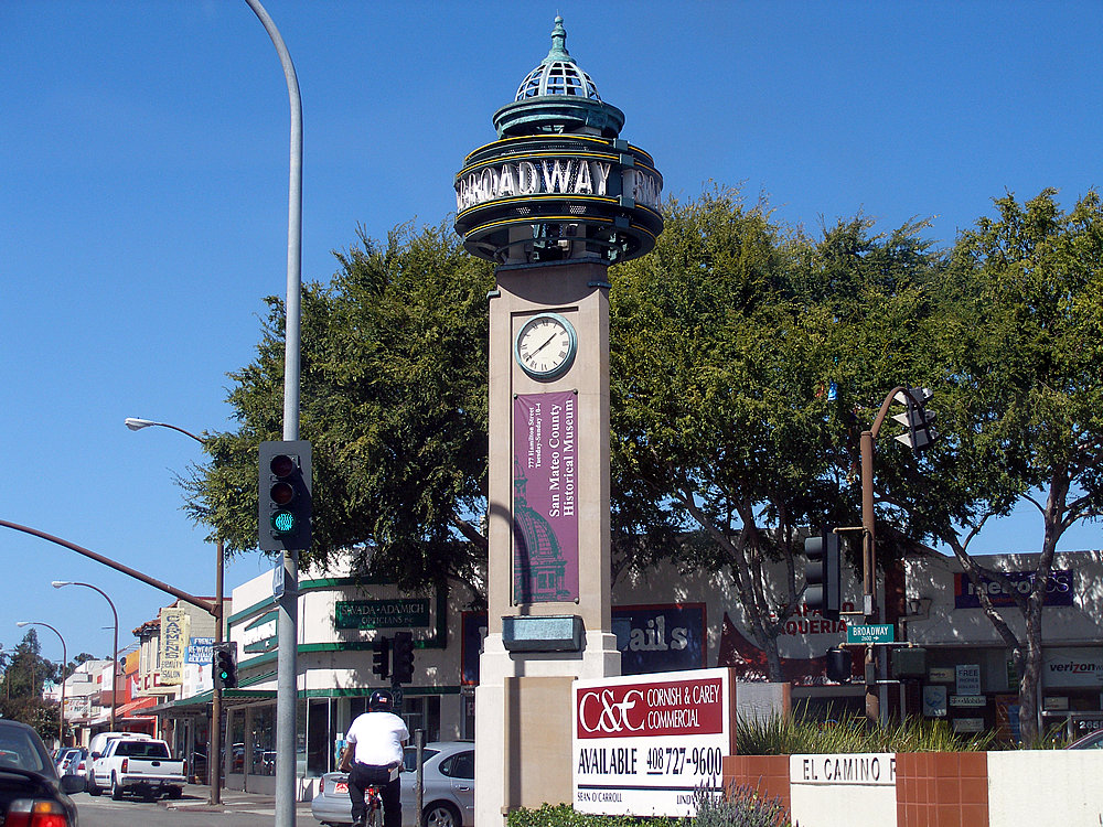 The clock tower at the intersection of Broadway and El Camino Real in Redwood City, as seen by traffic going northwest on El Camino Real. Photographed by user Coolcaesar on September 26, 2005.